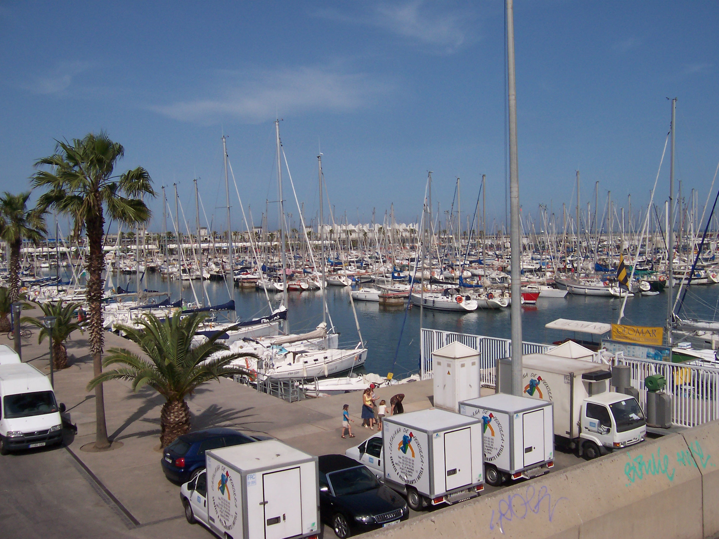 Port Olympic, in Barcelona.